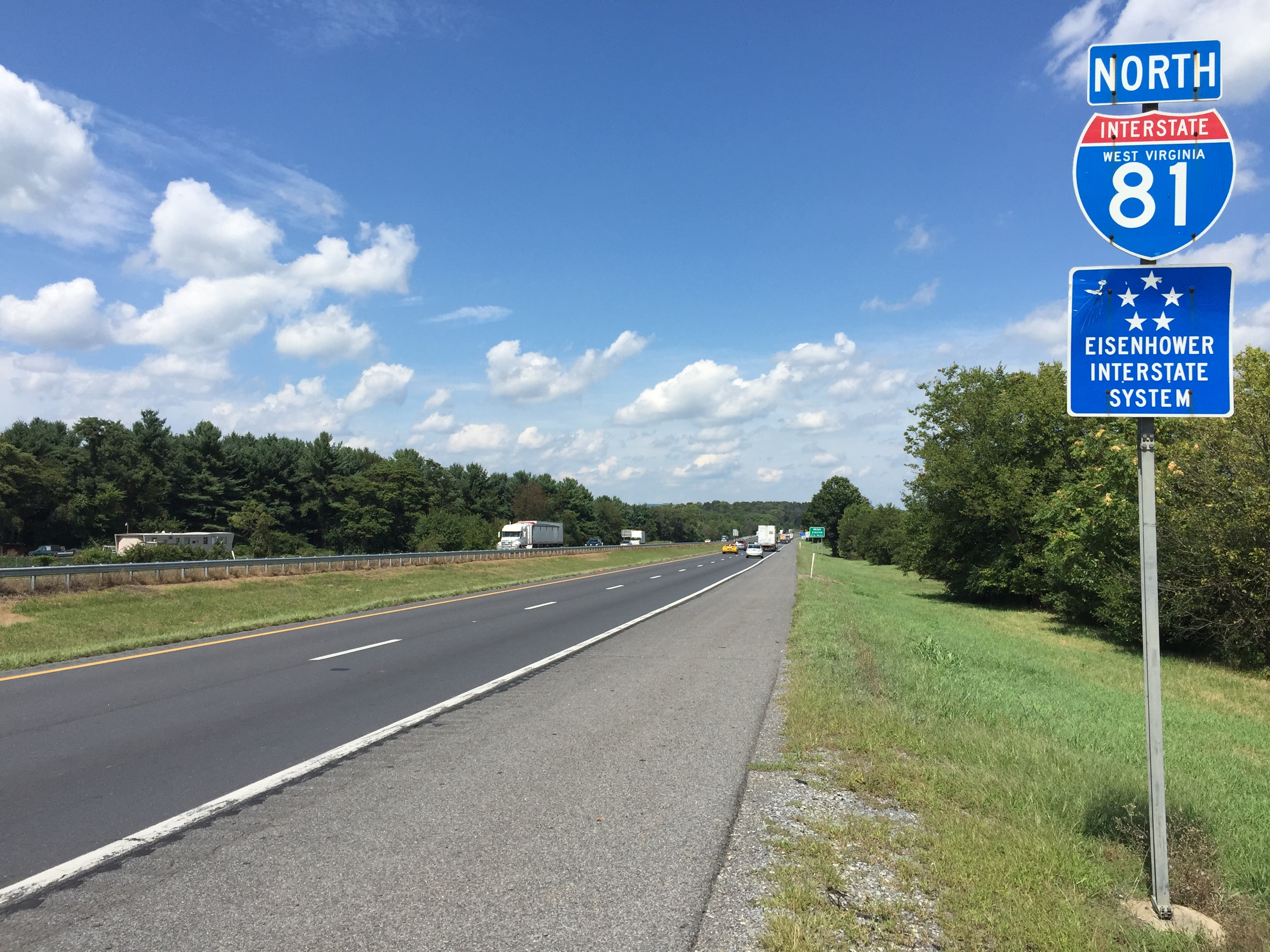 View north along Interstate 81 just after entering Ridgeway, Berkeley County, West Virginia from Rest, Frederick County, Virginia